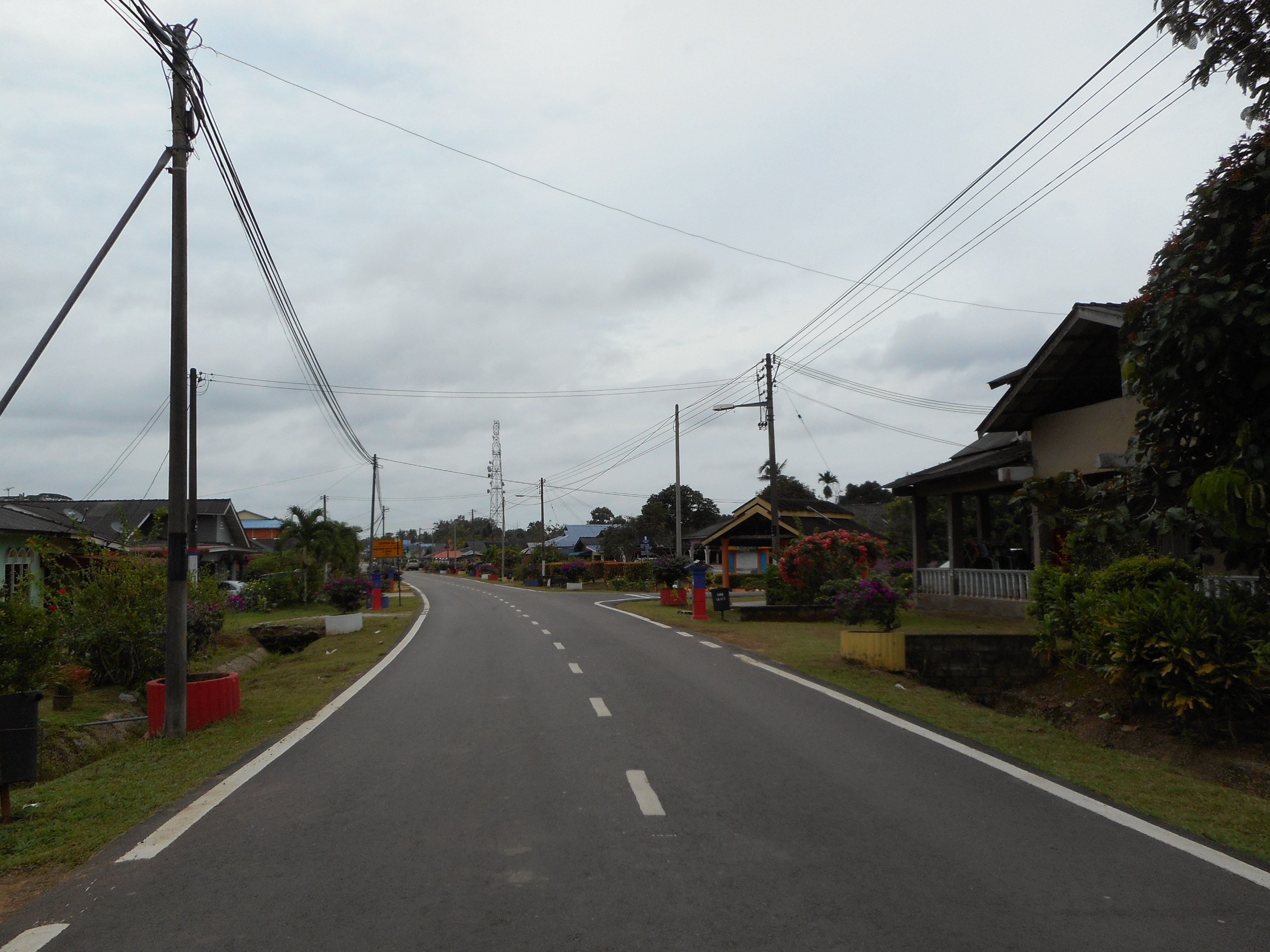 FELDA Tenggaroh 1, Jemaluang, Mersing, Johor, Malaysia